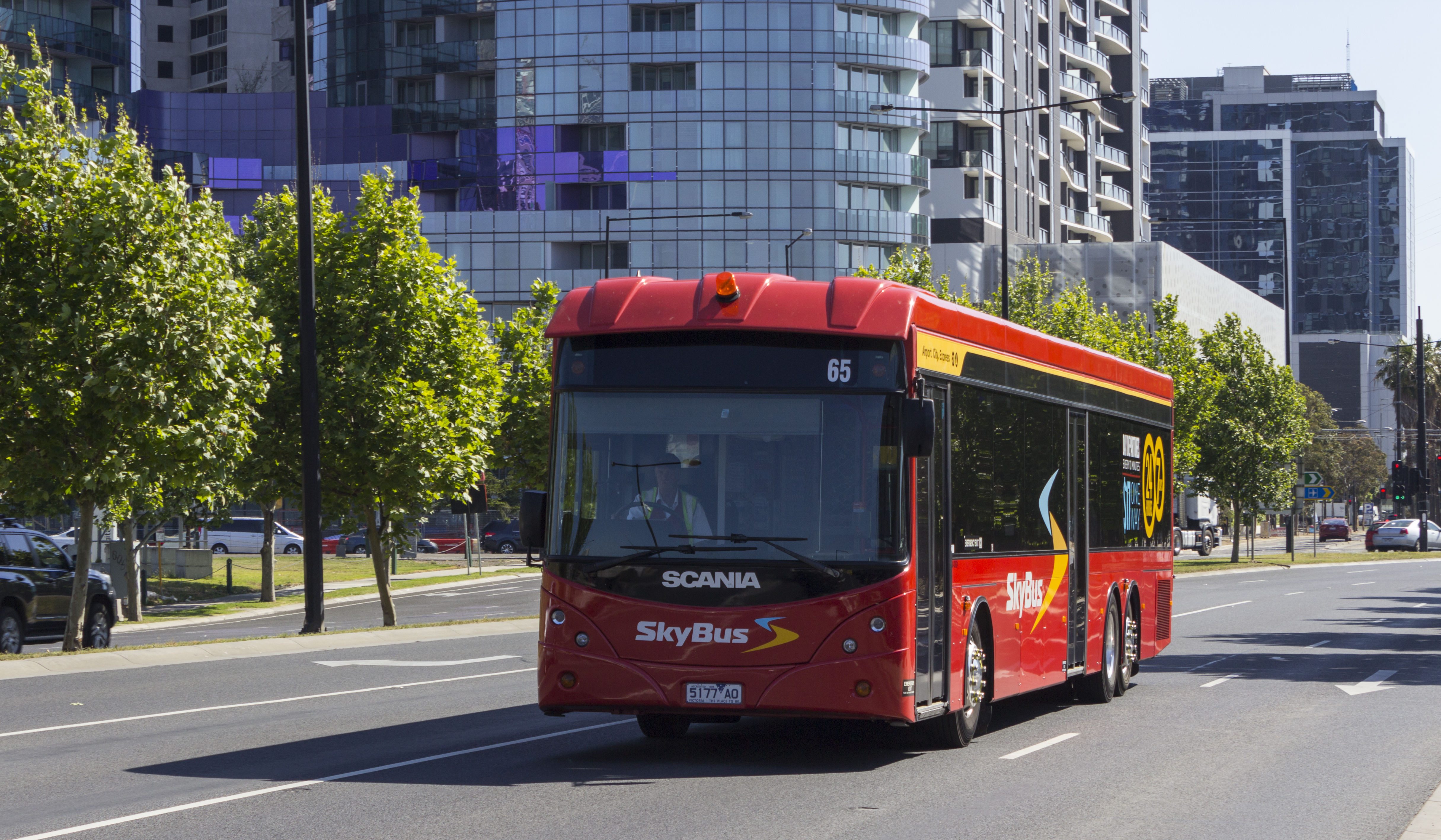 Skybus number 65 (5177AO) Scania in Wurundjeri Way, 2013